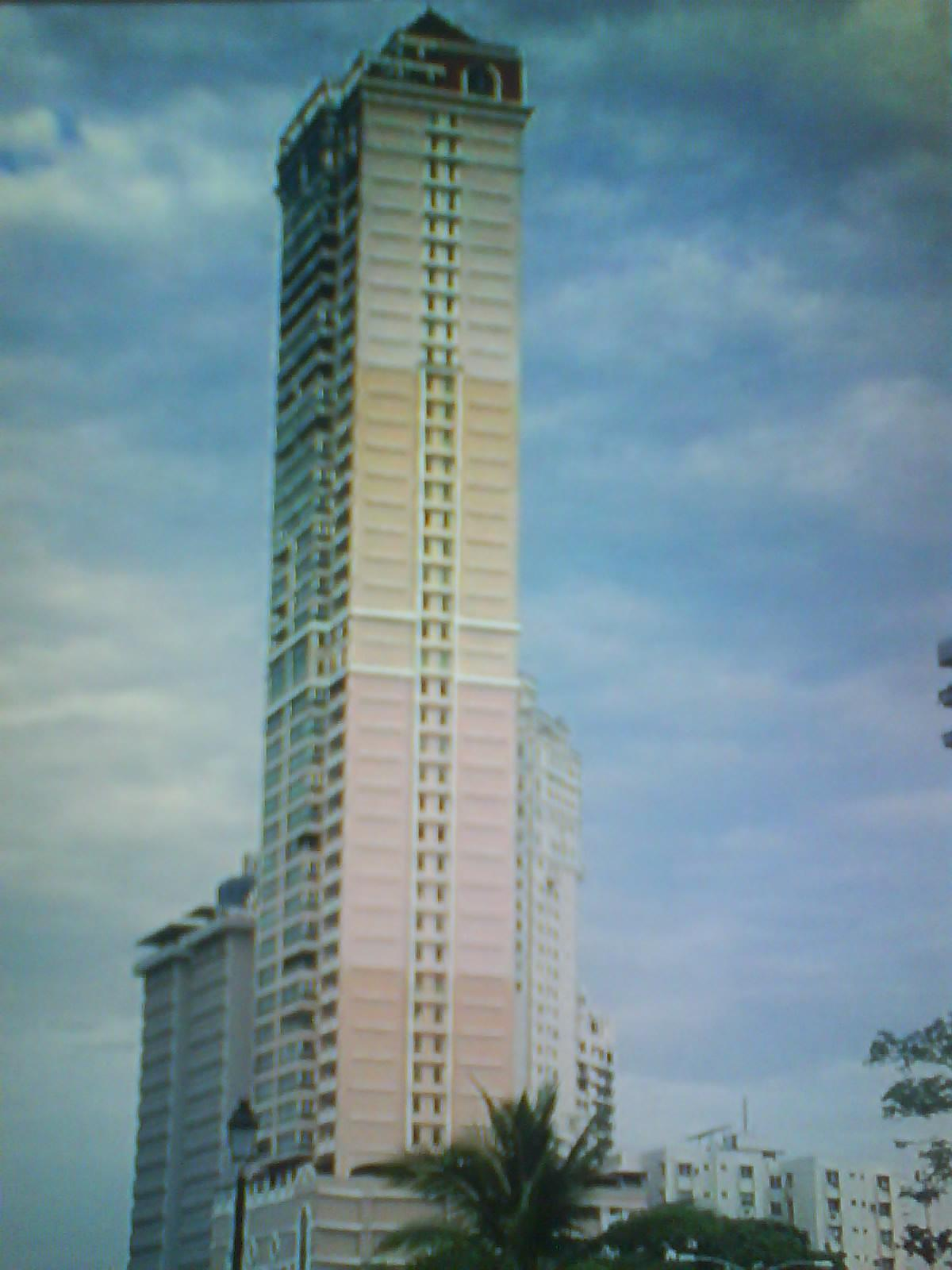 Torre Vista Marina, Panama City, Panama. taken by my mobile phone